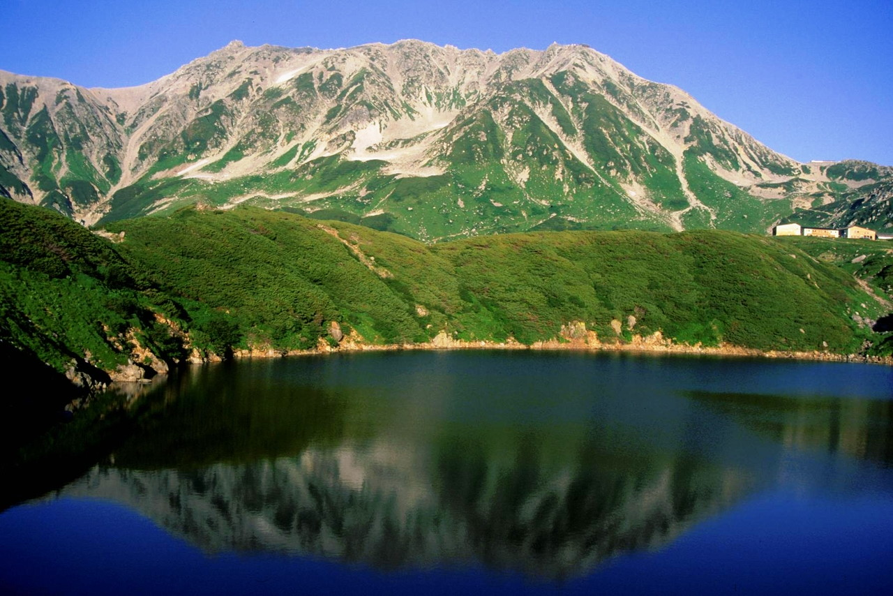 Mount Tate and Pond (Mikurigaike), in Tateyama, Toyama prefecture, Japan.